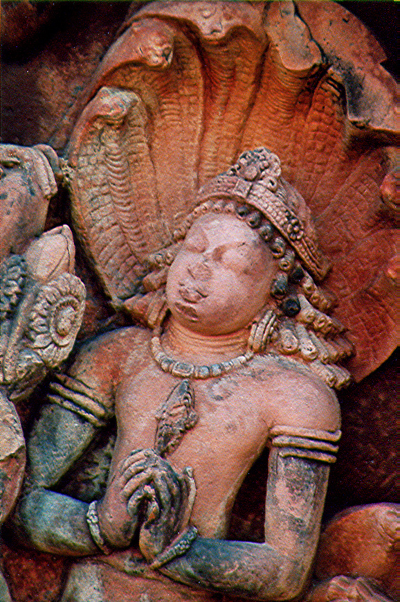 Photo 2833 Naga referring to serpent beings and their kingdom. Strongly associated with fertility. Many shrines are maintained by women who leave offerings to have children.